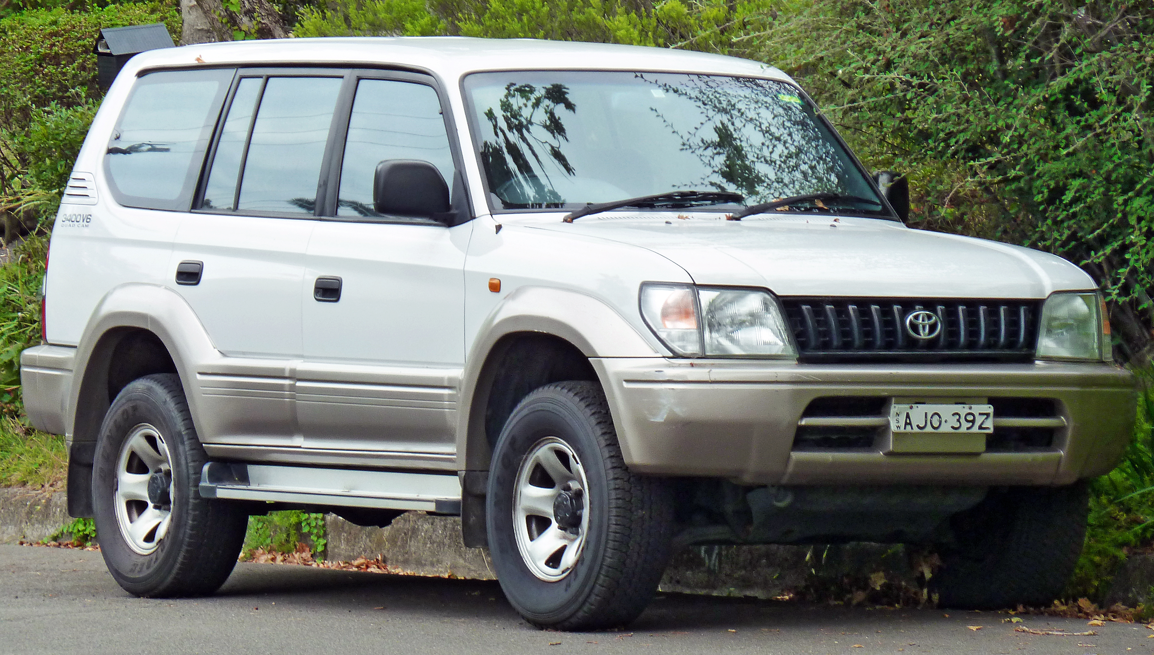 1998 Toyota Land Cruiser Prado (VZJ95R) GXL 5-door wagon. Photographed in Lindfield, New South Wales, Australia.